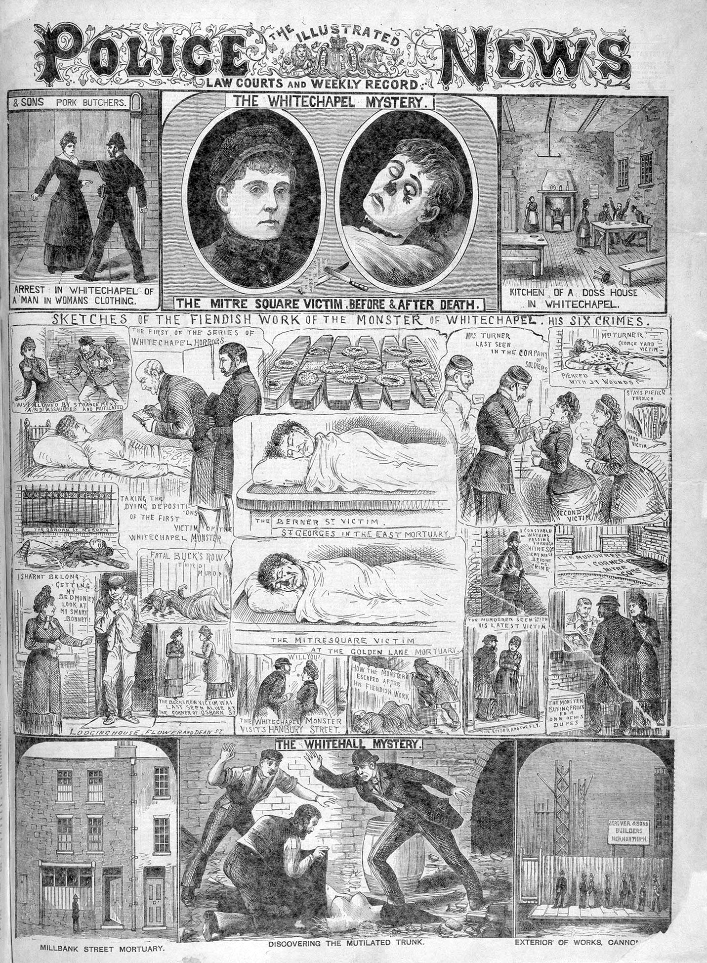 The Illustrated Police News - 13 October 1888 - Jack the Ripper